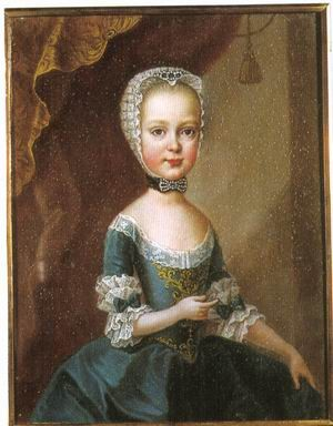 First daughter of Holy Roman Emperor Joseph II. of Austria and his first wife Maria Isabella de Parma